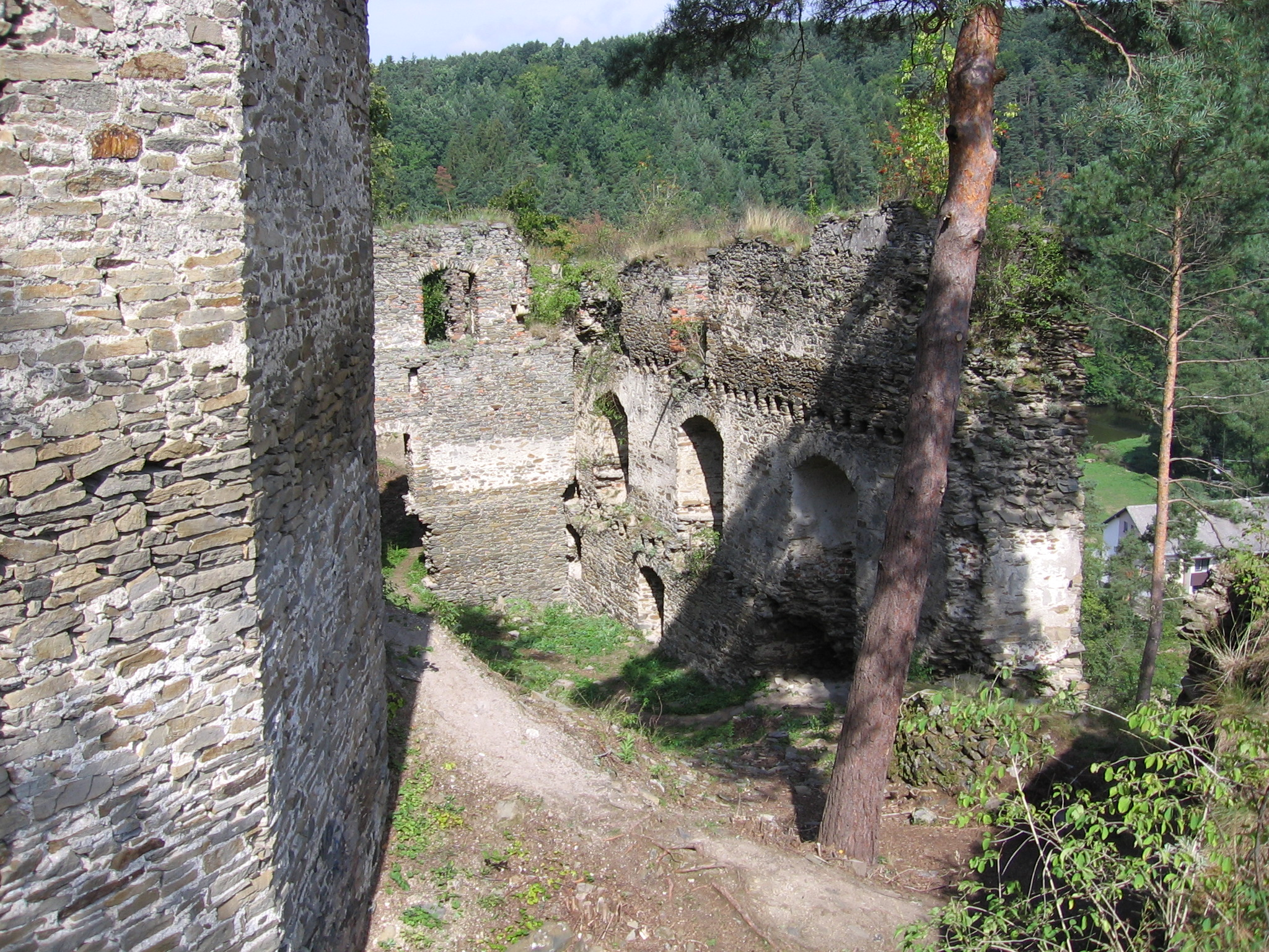 Ruins of the Frejštejn Castle, which is situated in village Podhradí nad Dyjí (Southern Moravia, Czech Republic)